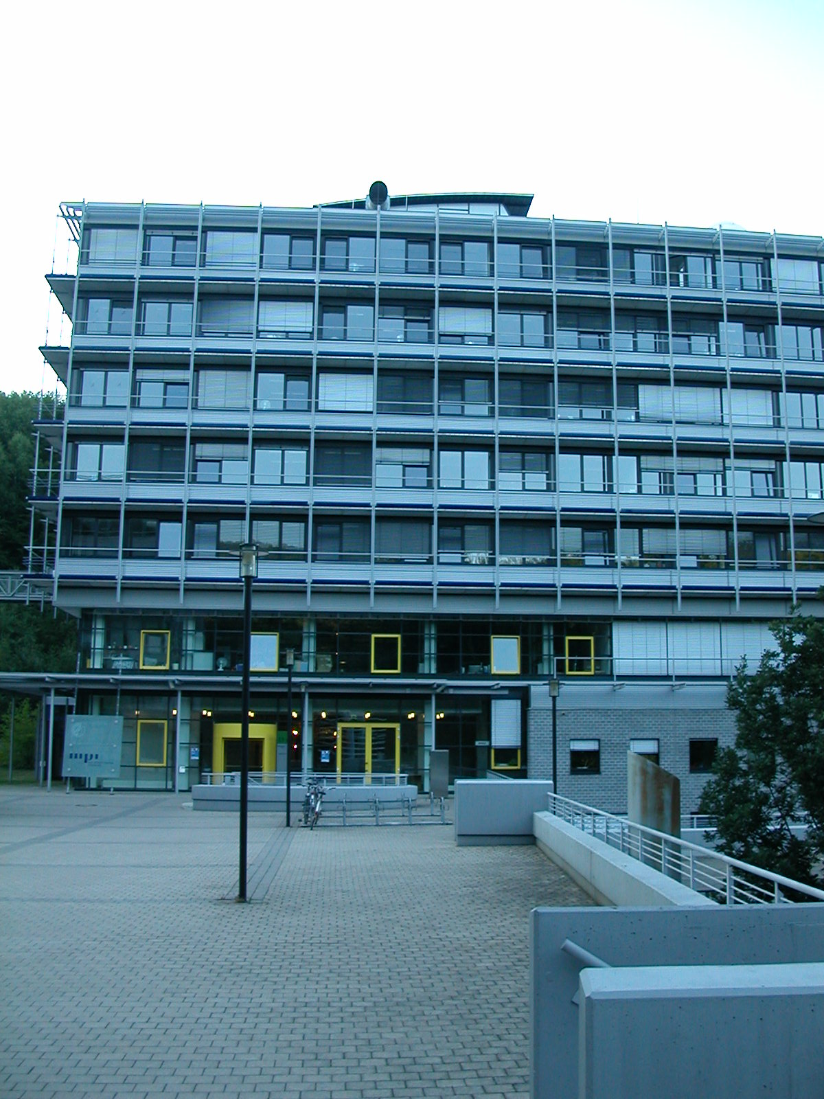 The Building of the “Max-Planck-Institut für Informatik”